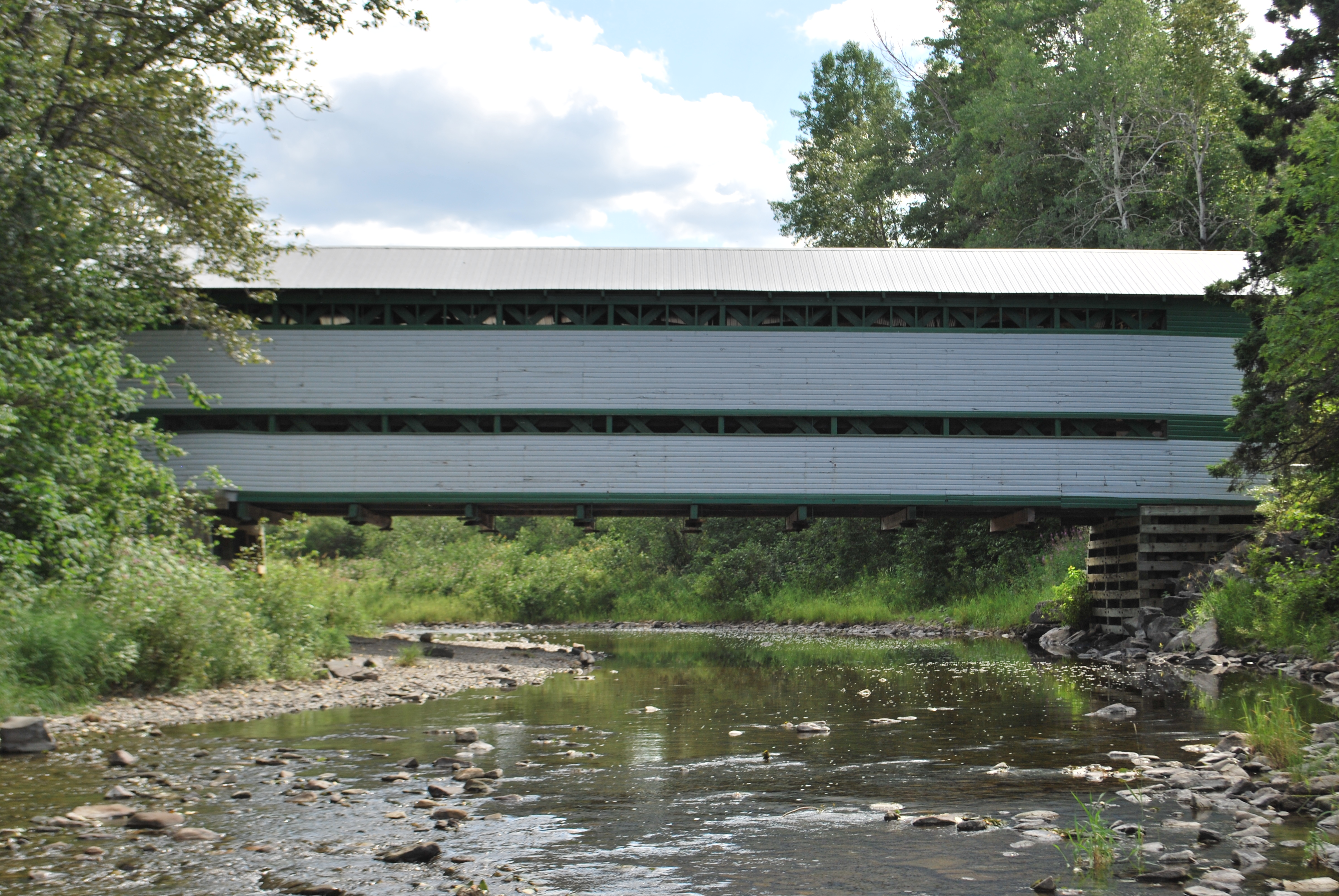 The Bélanger covered bridge, in Les Boules, Gaspésie, Quebec. Built in 1925